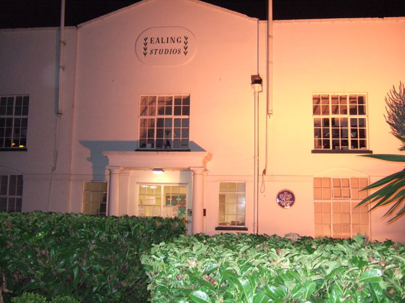 Ealing Studios. The building also features as "Hellingforth Studios" in the Miss Marple episode "The Mirror Cracked from Side to Side" (1992). Author: Tupinambah